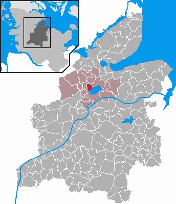 Locator maps of municipalities in Schleswig-Holstein - District Rendsburg-Eckernförde